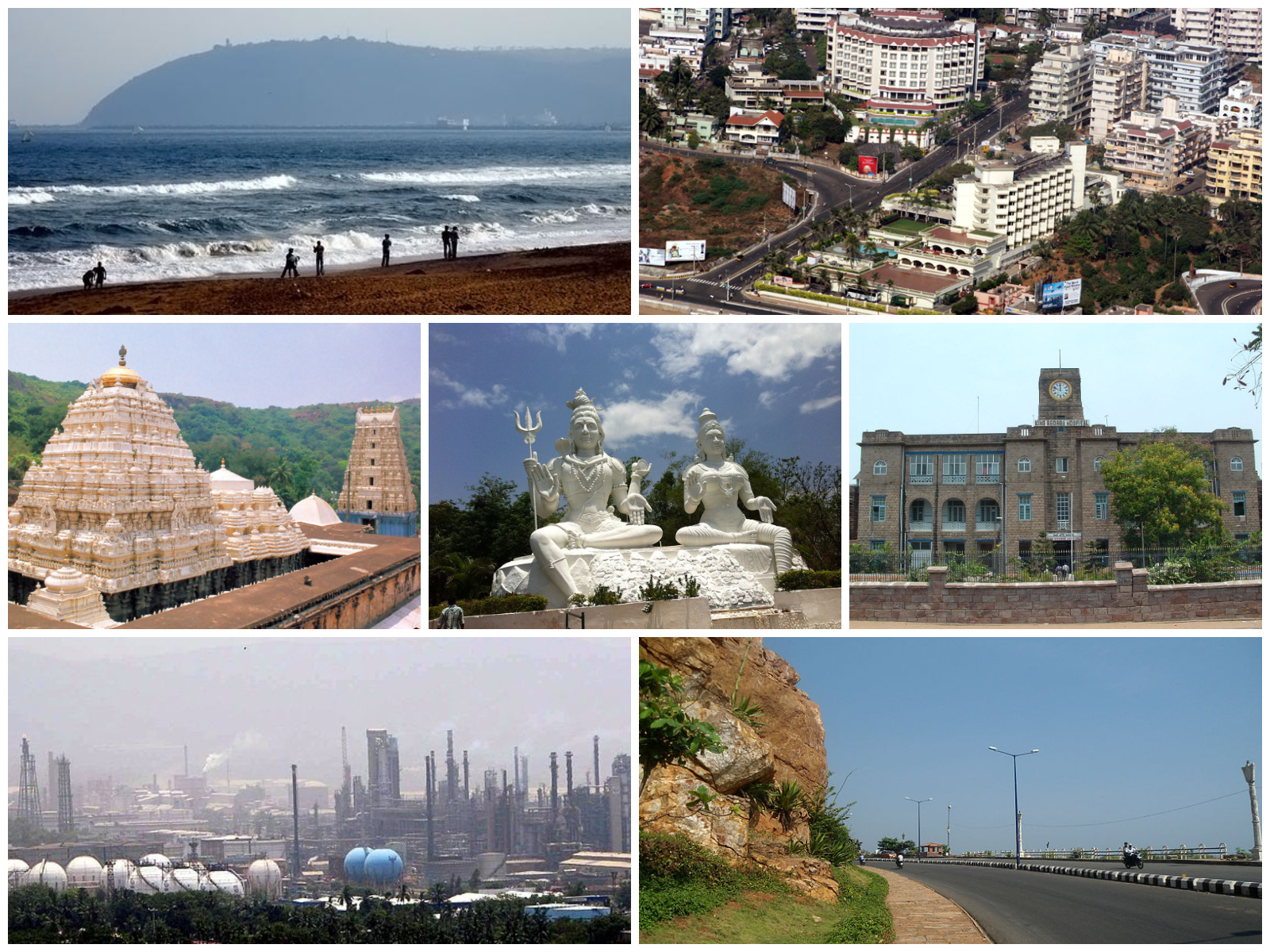 A montage of Visakhapatnam